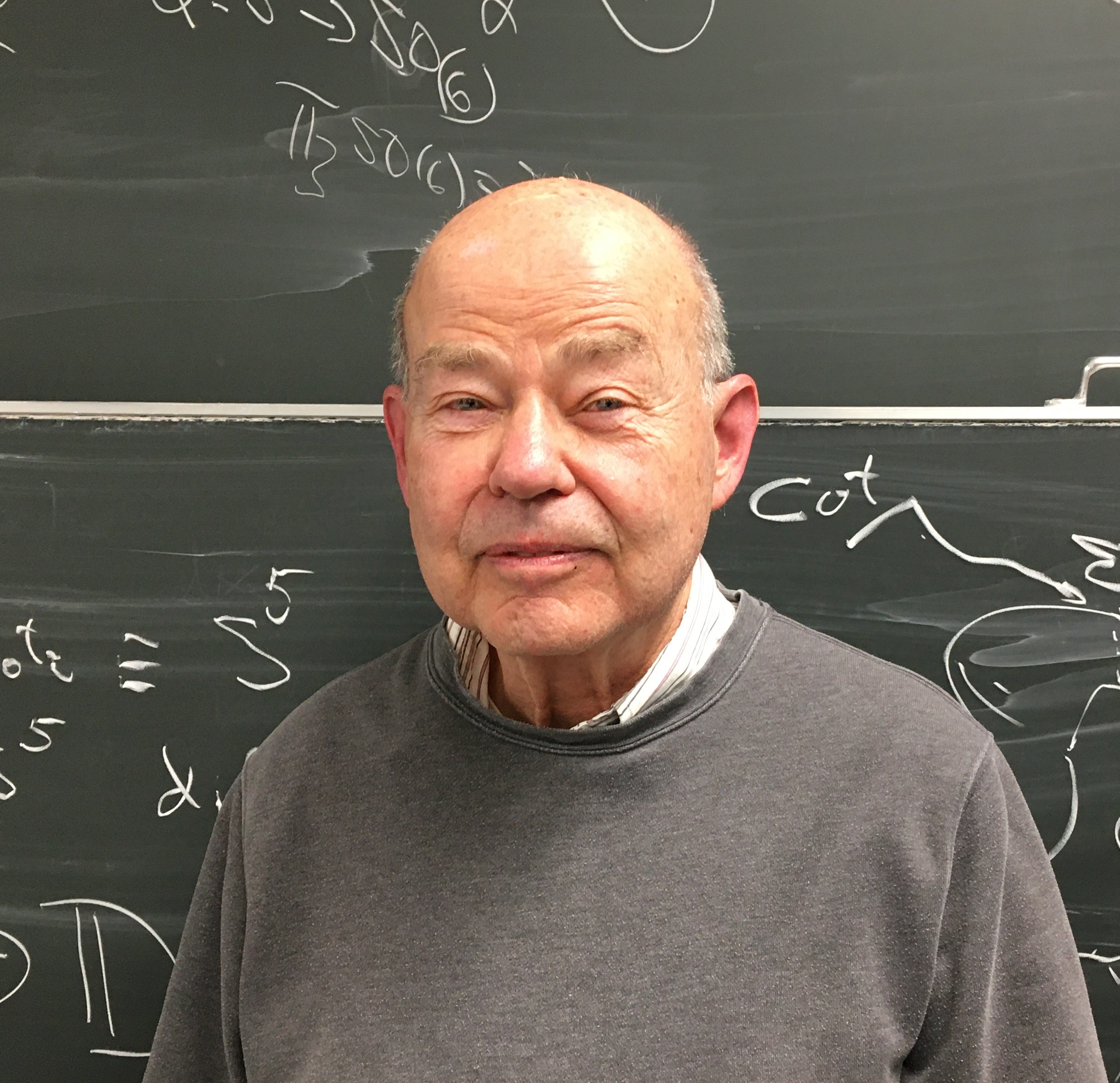 F. Thomas Farrell in 2020, after giving a lecture at the University of Bielefeld